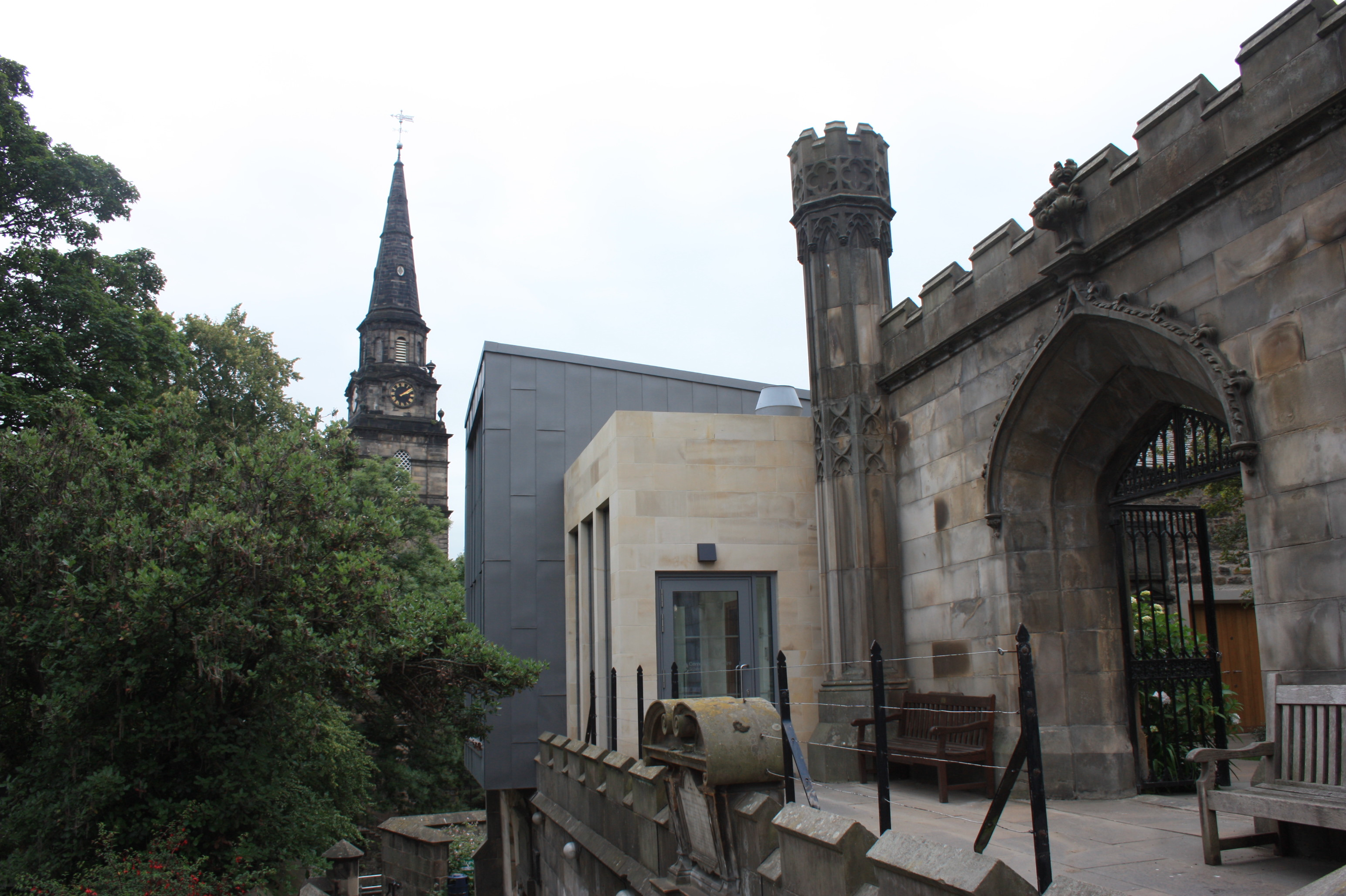 The 2018 extension to St Johns Episcopal Church, Edinburgh